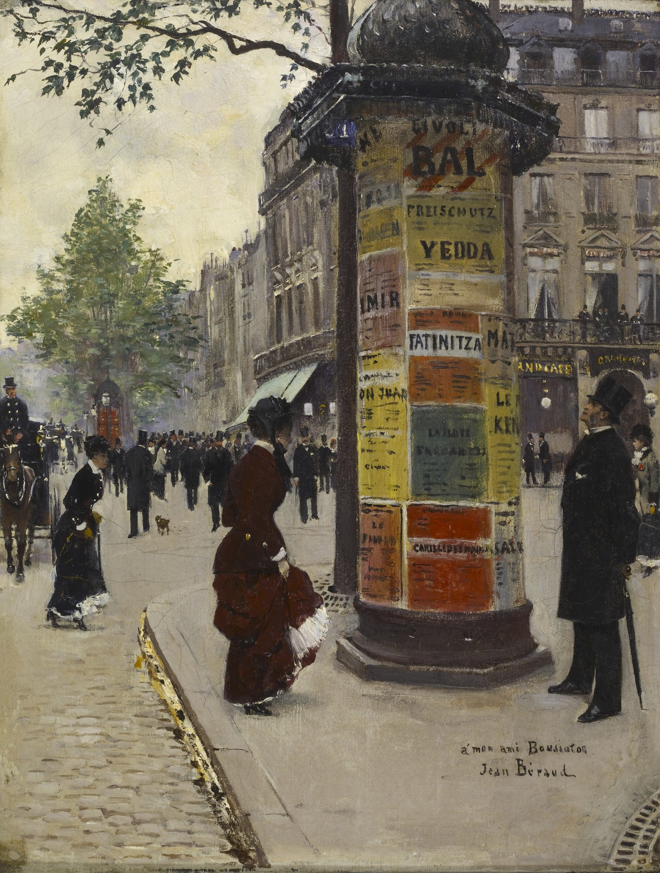 Like a number of other 19th-century artists, Béraud first trained to become a lawyer before discovering his true calling. In 1872, he enrolled in the studio of the portraiture specialist Léon Bonnat. While he began as a portraitist, he eventually became known for his highly detailed scenes of urban life. Working from a carriage that he converted into a mobile studio, Béraud recorded life on the grand boulevards of Paris. The corner represented here can still be recognized as the intersection of the Rue Scribe and the Boulevard des Capucines. Like Degas, Béraud depicted modern life in all of its variety with journalistic accuracy. Béraud, however, delighted in recording even the smallest details, which are so precise that we can make out an advertisement for "Yedda," a popular ballet, and just below it, another playbill for a comic opera called "La Fatinitza," which opened in Paris in 1879.